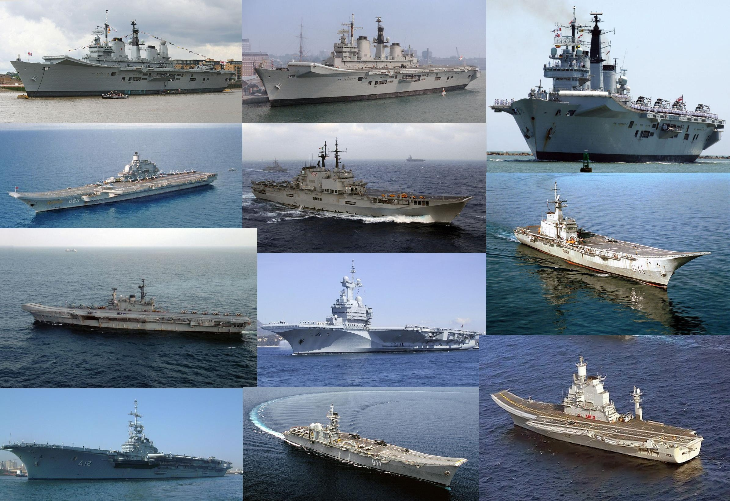 Aircraft carriers of 2007 except US. carriers: HMS Ark Royal, HMS Illustrious, HMS Invincible, Admiral Kuznetsov, Giuseppe Garibaldi, Chakri Naruebet, INS Viraat, Charles de Gaulle, NAe São Paulo, SNS Principe de Asturias (R11), and INS Vikramaditya.